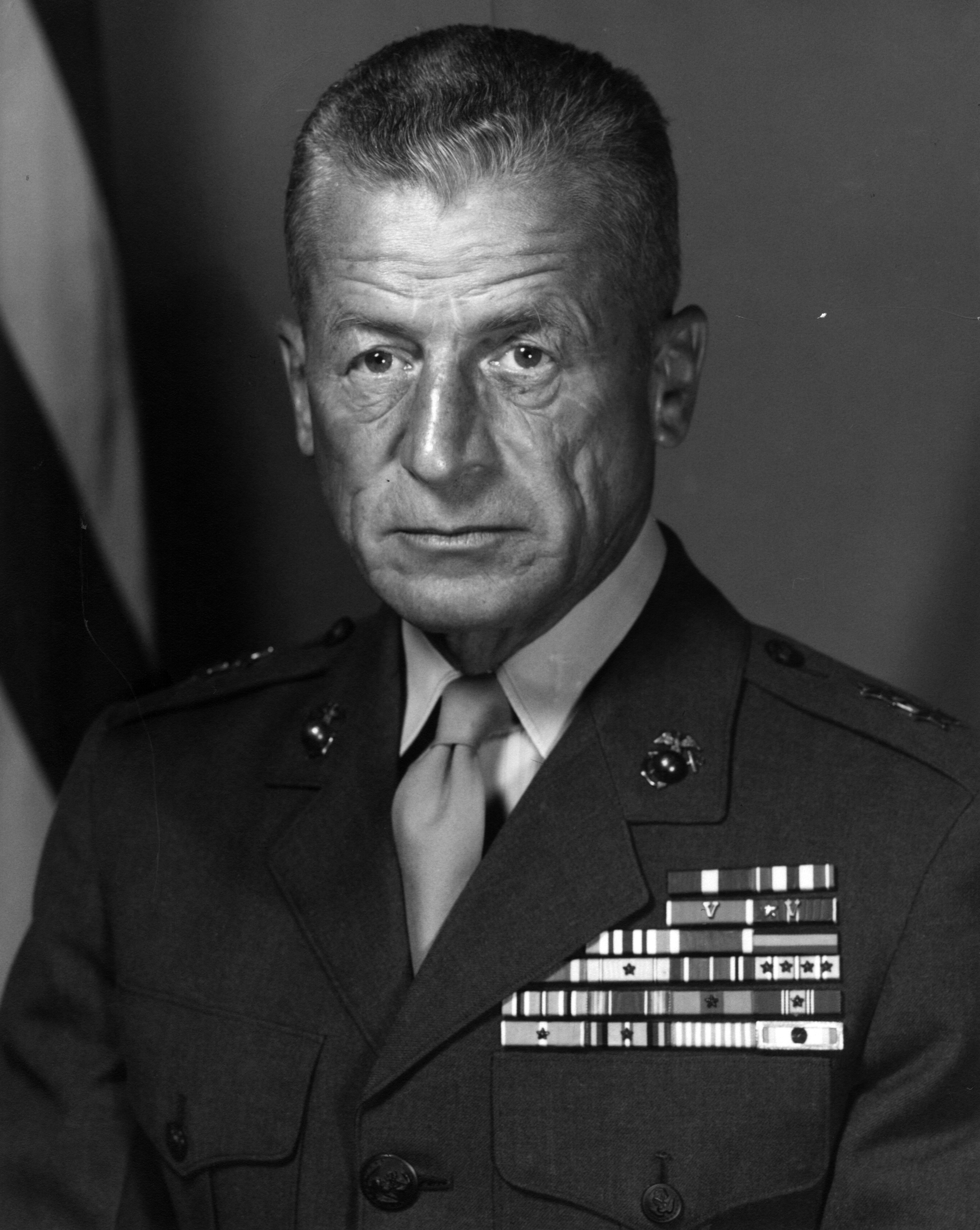 Rathvon McClure Tompkins (August 23, 1912 – September 17, 1999) was an highly decorated officer of United States Marine Corps with the rank of Major General. He saw combat during World War II, the Korean War, the Vietnam War and led Marine units during Dominican Civil War. Tompkins is well known for his part as Commander of 3rd Marine Division during the Battle of Khe Sanh in Vietnam. Defense Department phooto (Marine Corps) A601707